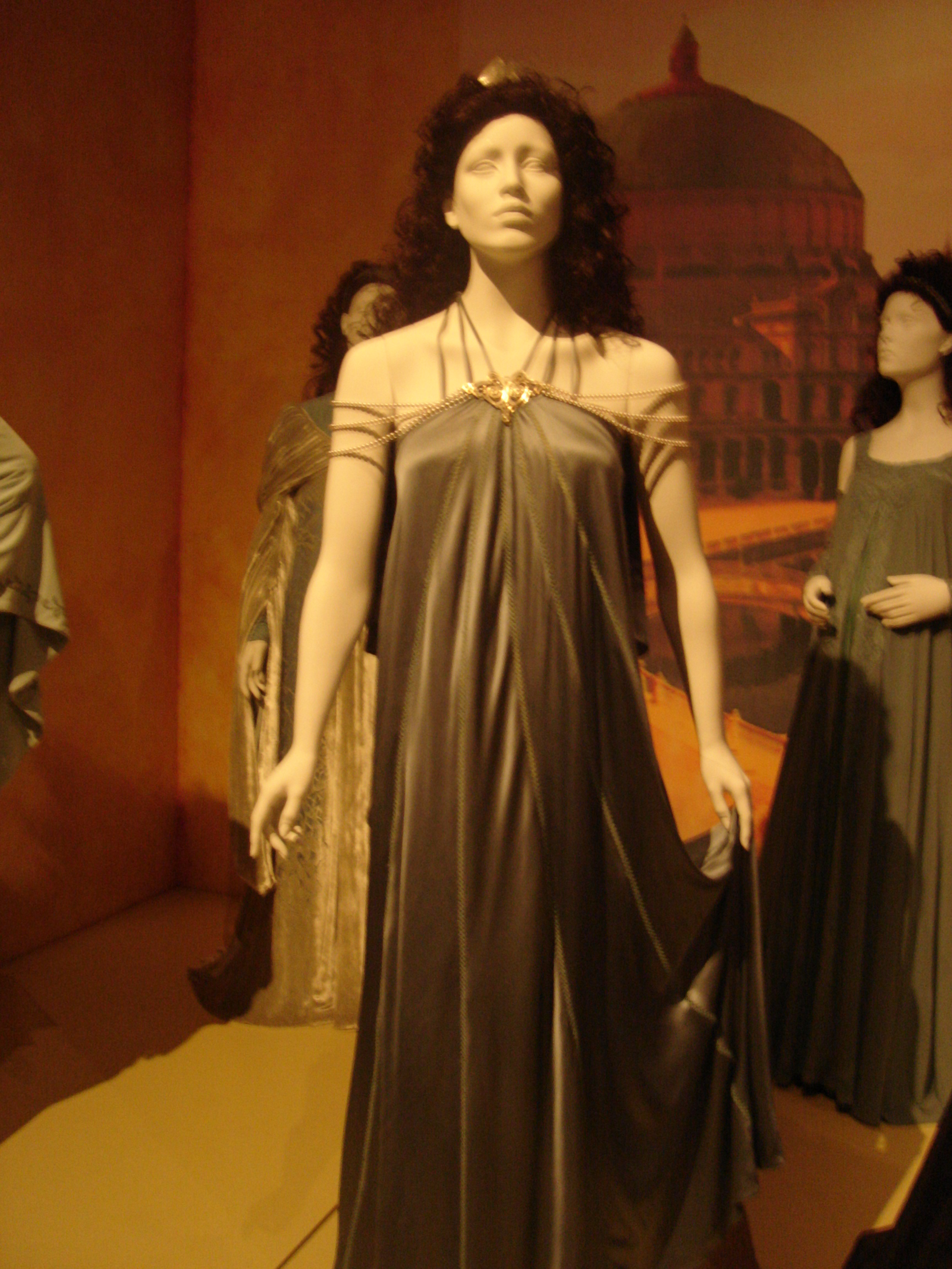 Padmé's Balcony Dress: taken at the "Fashion of Star Wars" FIDM premiere